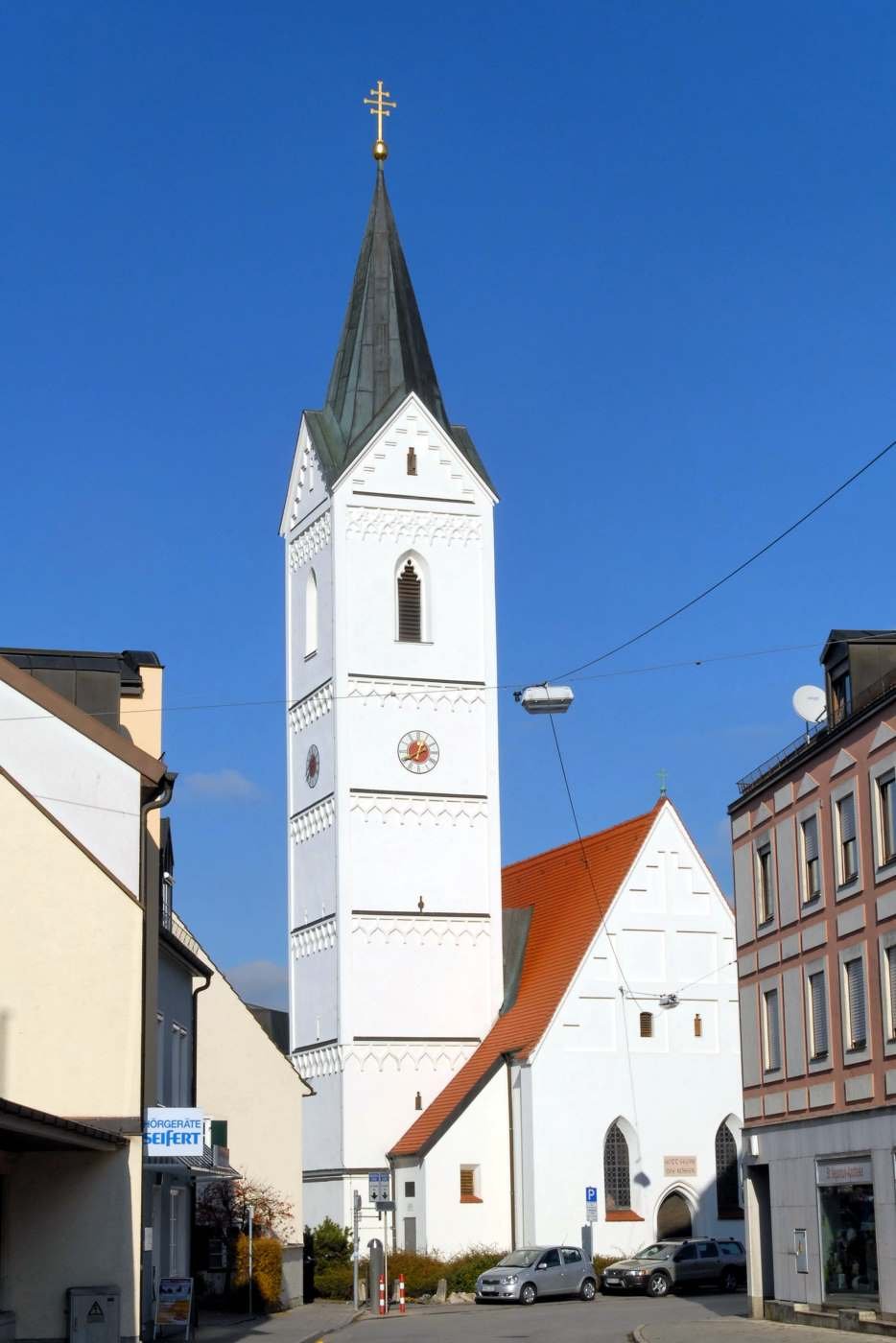 monastery Fürstenfeldbruck: pilgrim church "St.Leonhard"